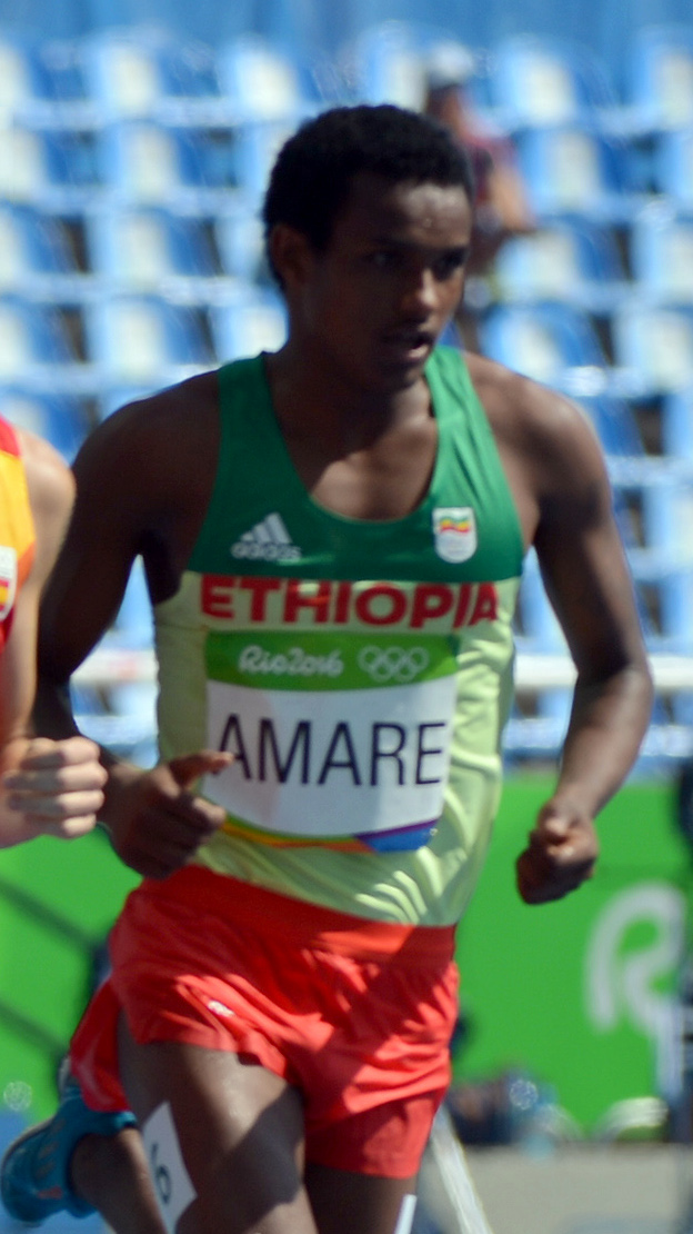 Hailemariyam Amare the first of three qualifying heats in the men's 3,000-meter steeplechase on Aug. 15 at the 2016 Rio Olympic Games in Rio de Janeiro.